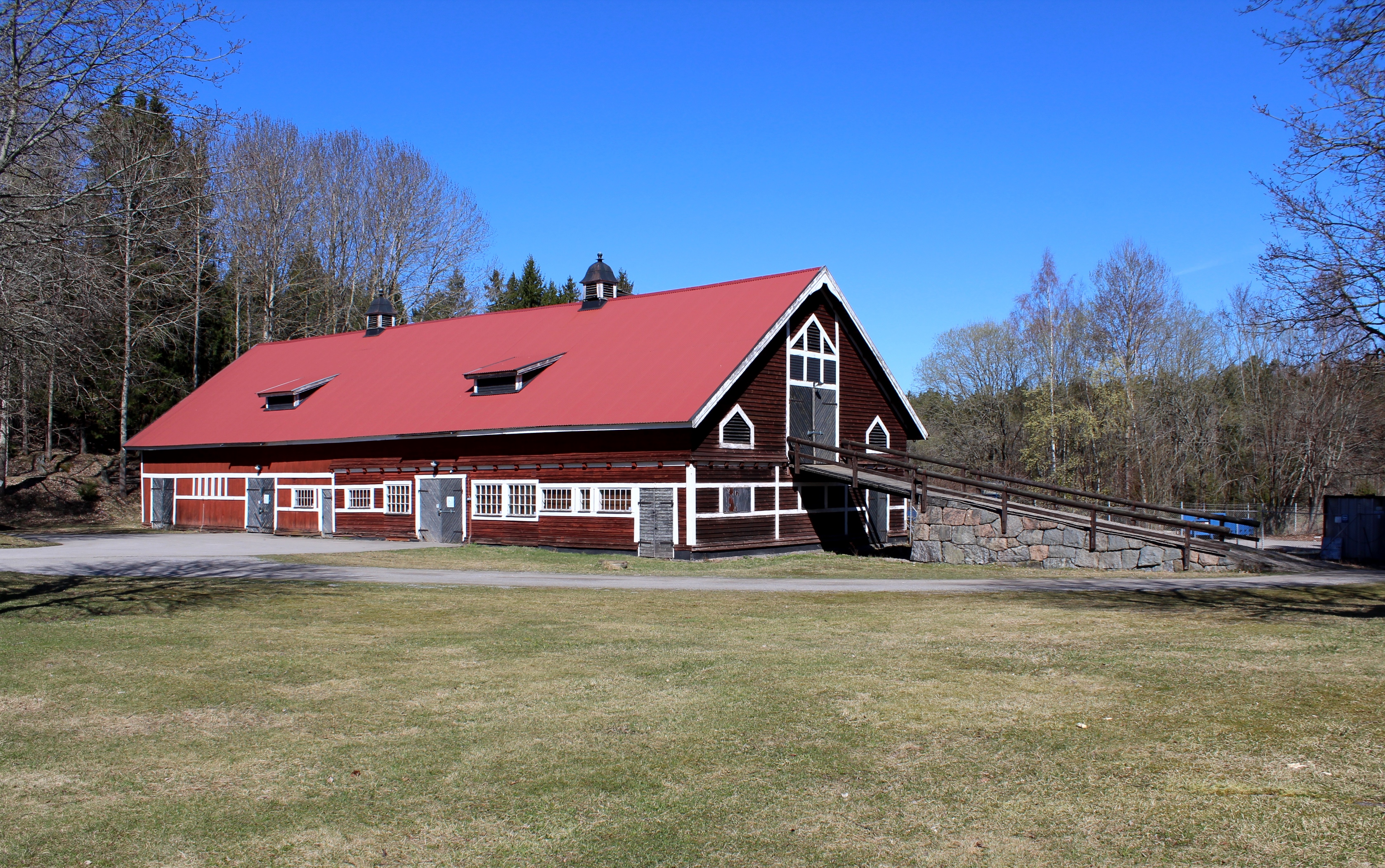 Barn at Lill-Tumba mansion, Botkyrka Municipality, Sweden